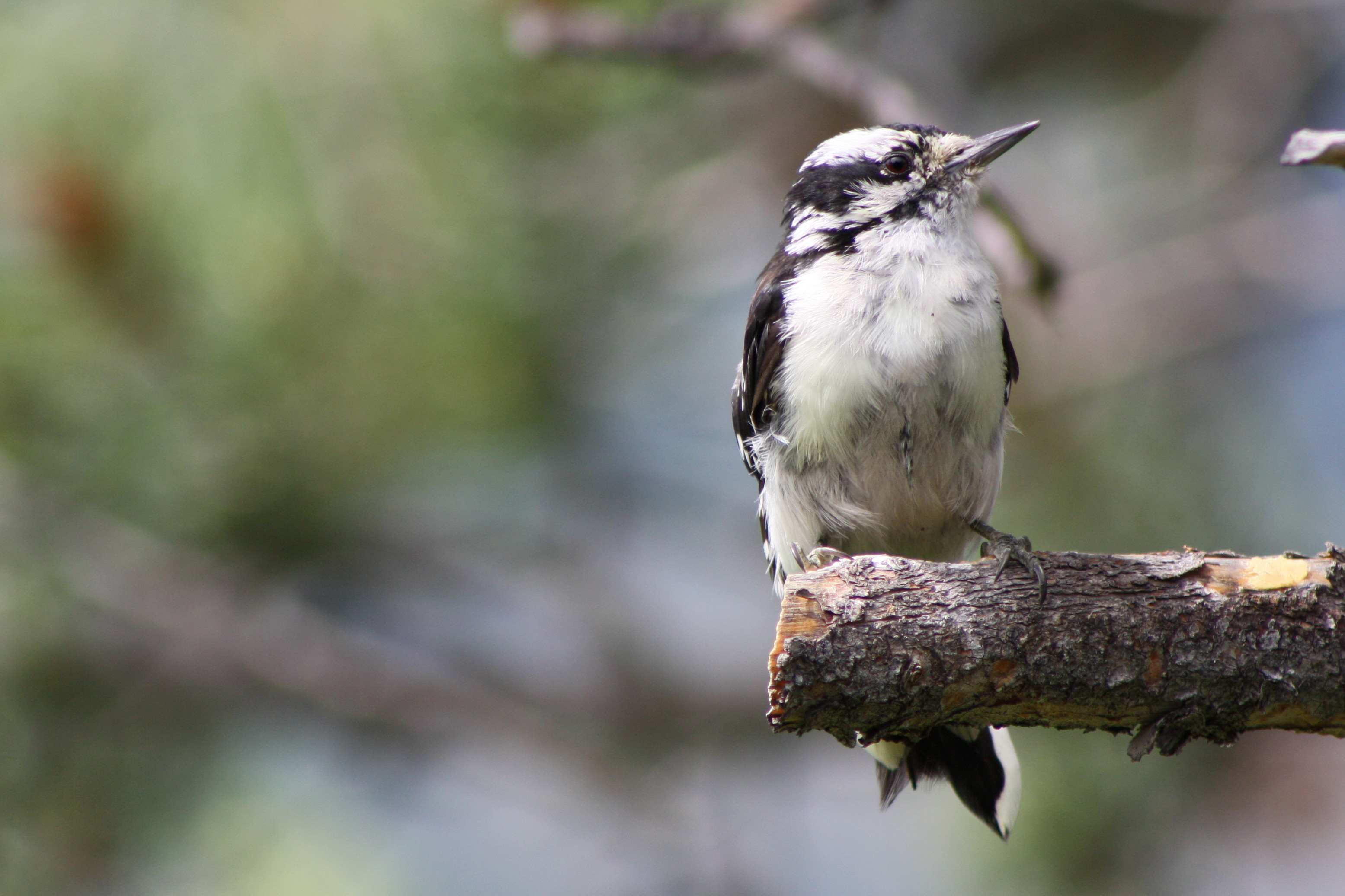 Hairy woodpecker, Picoides villosus; WY, This adult was feeding a fledgling